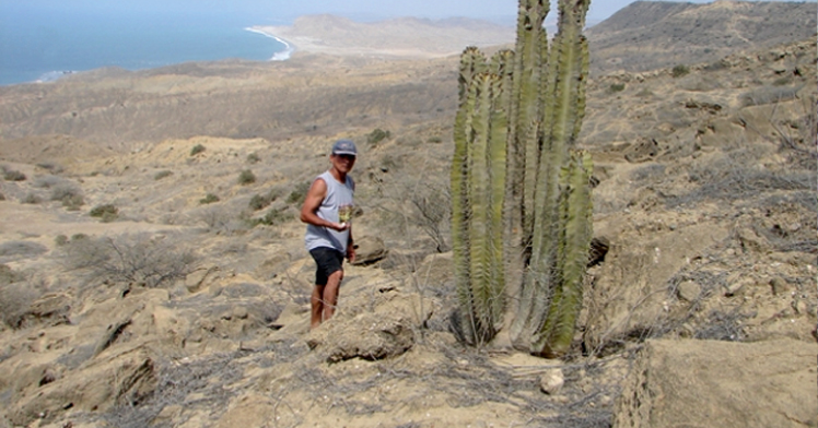 Photo of the type locality of Scutalus phaeocheilus altoensis, Dept. Piura, El Alto.